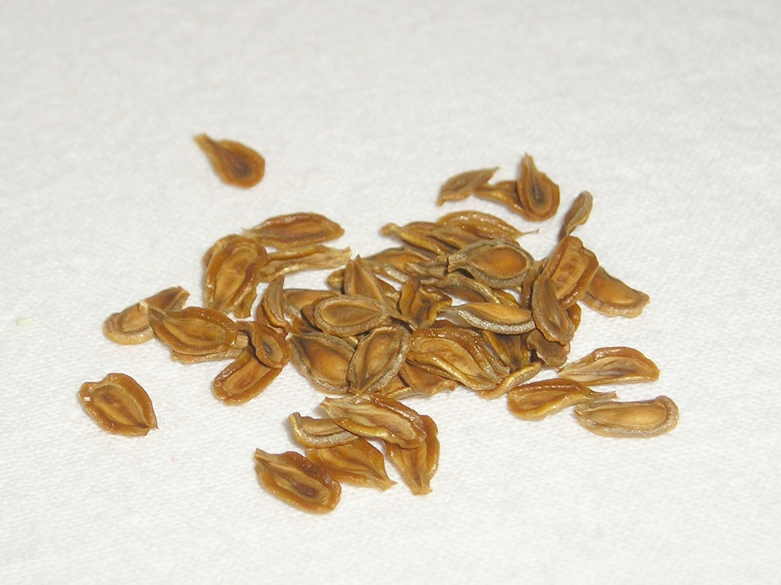 Huernia aspera seeds Creative Commons Licence BY 2.0 Quellenangabe / Credit: Photo by Maja Dumat